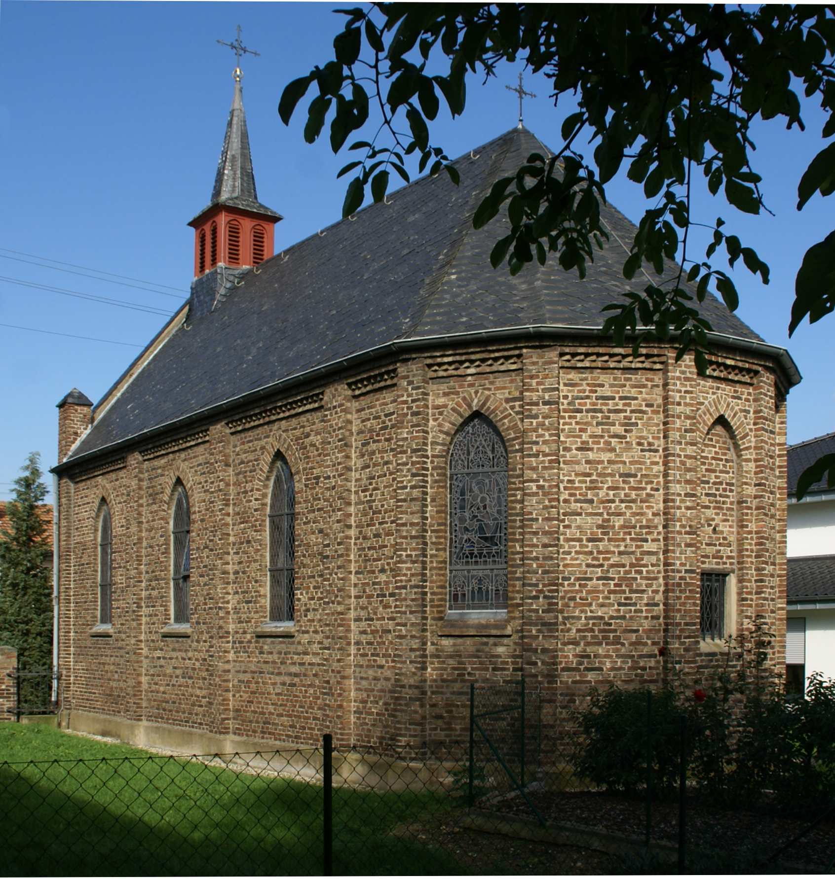 St. Mary's chapel in Mömerzheim